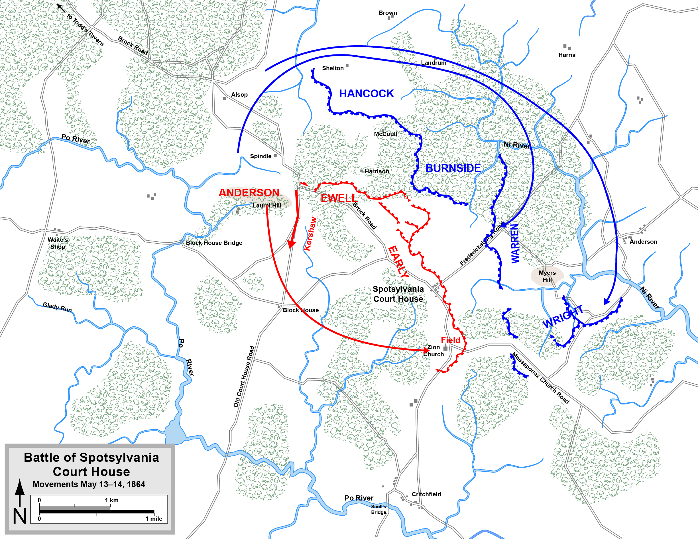 One of a series of seven maps depicting the Battle of Spotsylvania Court House of the American Civil War. Drawn by Hal Jespersen in Adobe Illustrator CS5. Graphic source file is available at Attribution: Map by Hal Jespersen